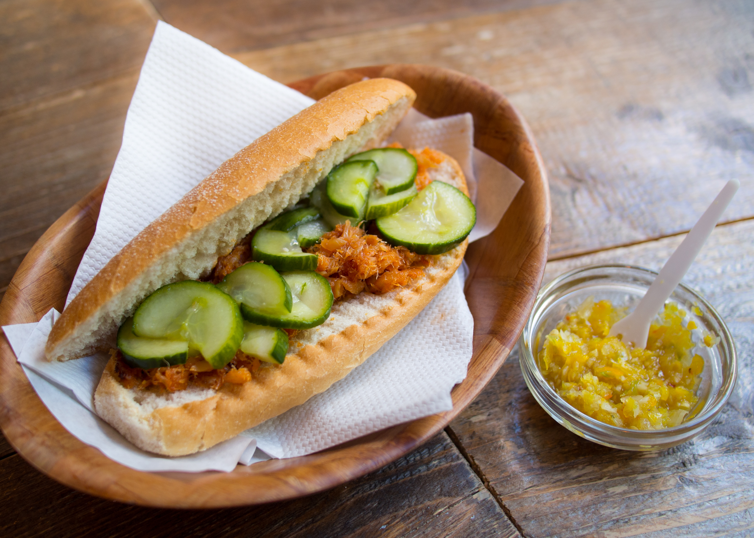 A "broodje bakeljauw" (bun with shredded and spiced stockfish) at Chinny's, a sandwich and fast food shop in The Hague selling Dutch-Surinamese food. Cucumber relish and chilli paste (either "pepers" made from Madame Jeanette chilli peppers and onion, or "sambal", a chilli paste similar to the Indonesian "sambal oelek") are often used as toppings. Here, a small saucer of "pepers" was provided on the side.